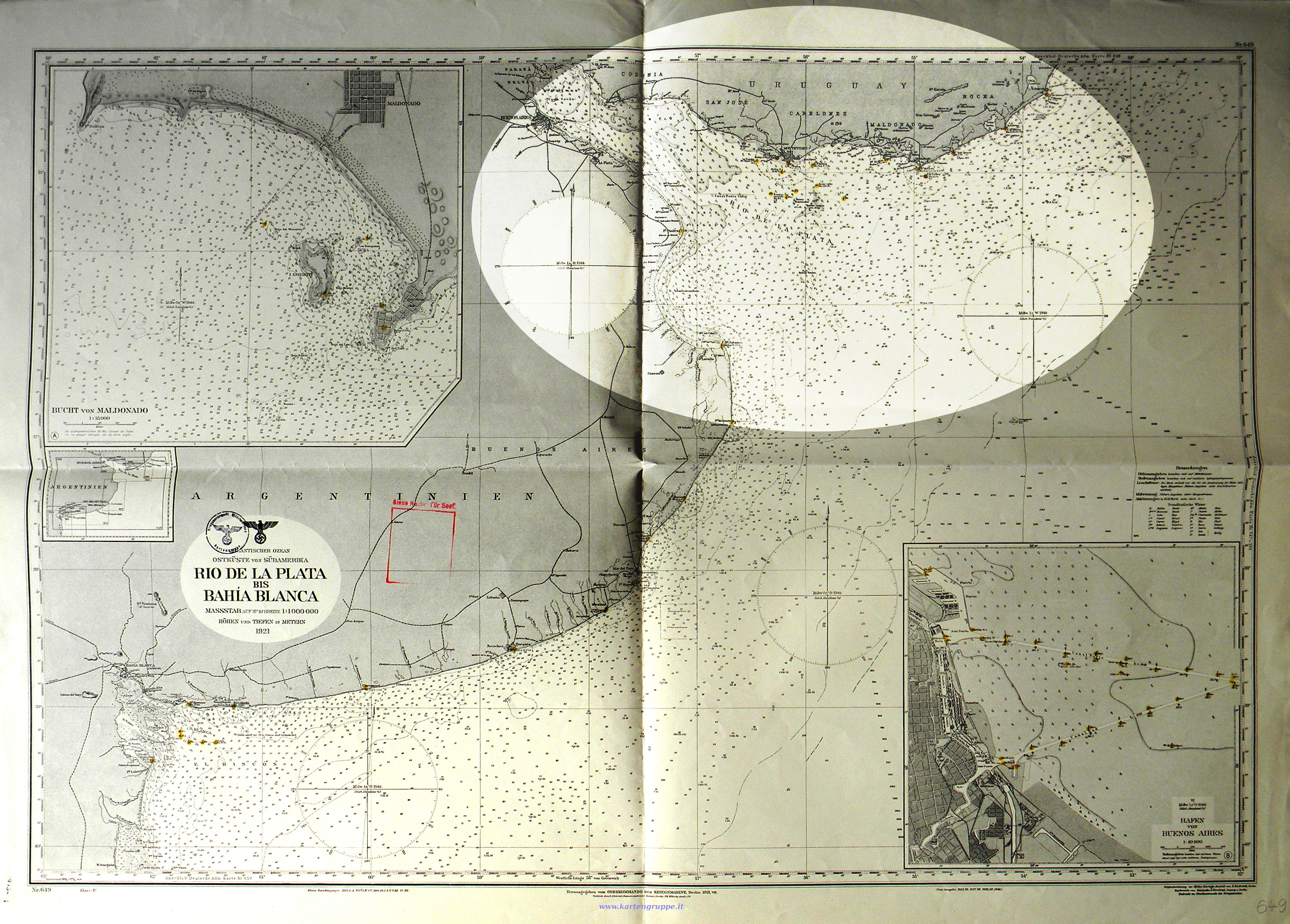 Admiral Graf Spee wreck location, original ww2 nautical chart by